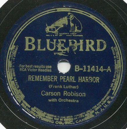 A record label of Carson Robison's Remember Pearl Harbor, written by Frank Luther.